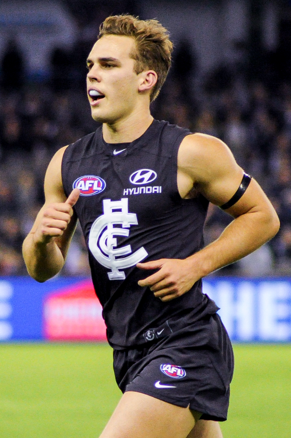 David Cuningham during the AFL round twelve match between Carlton and Greater Western Sydney on 11 June 2017 at Etihad Stadium in Melbourne, Victoria.